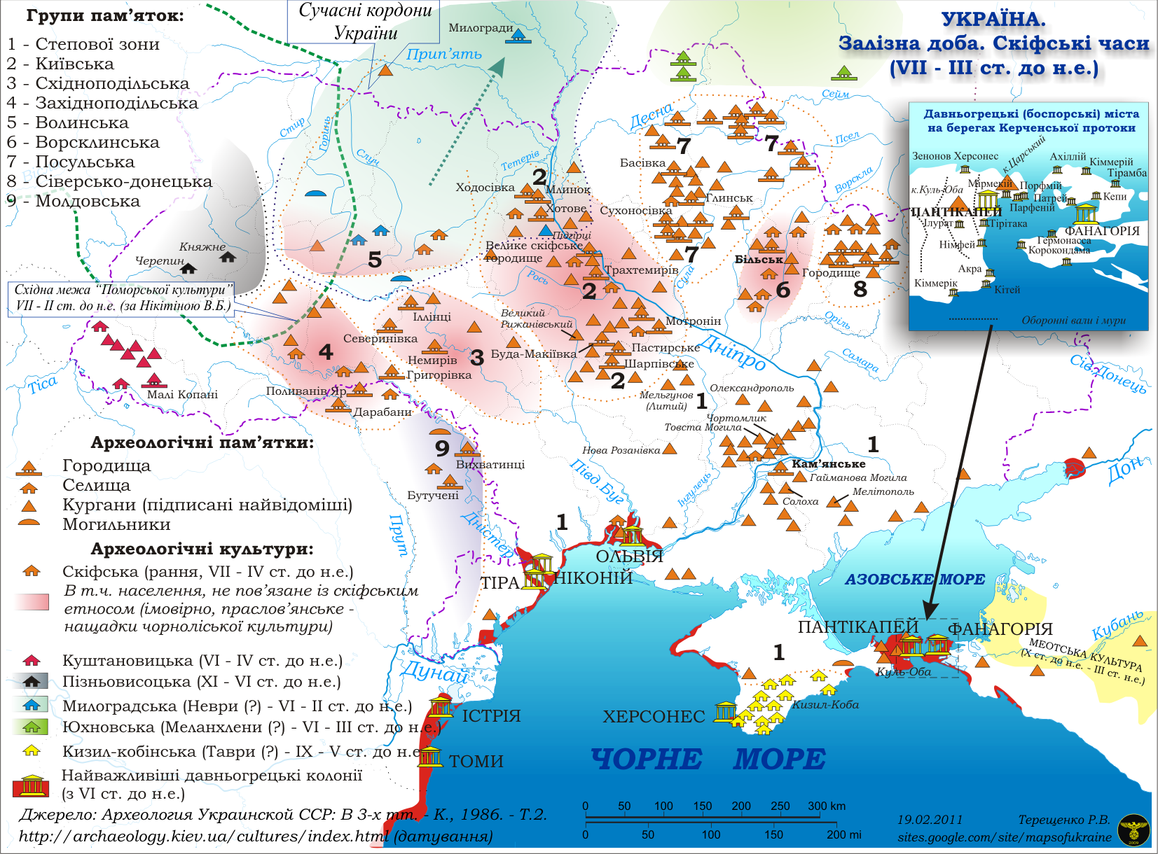 Scythian epoch on the territory of Ukraine. VII - III centuries BC